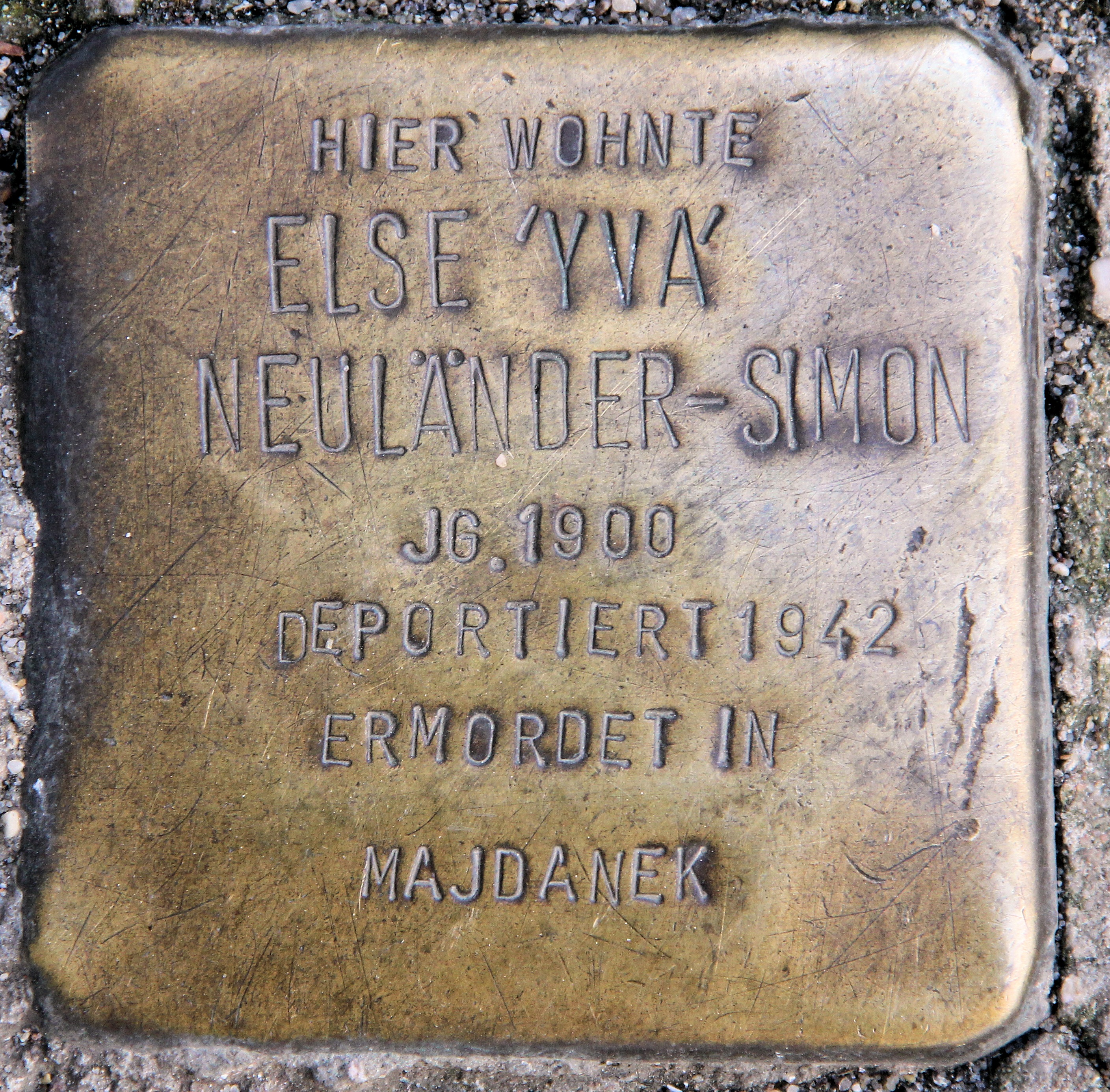 "Stolperstein" (stumbling block), Else Neuländer-Simon, Schlüterstraße 45, Berlin-Charlottenburg, Germany Koordinate:52°30′2″N 13°19′1″E / 52.50056°N 13.31694°E